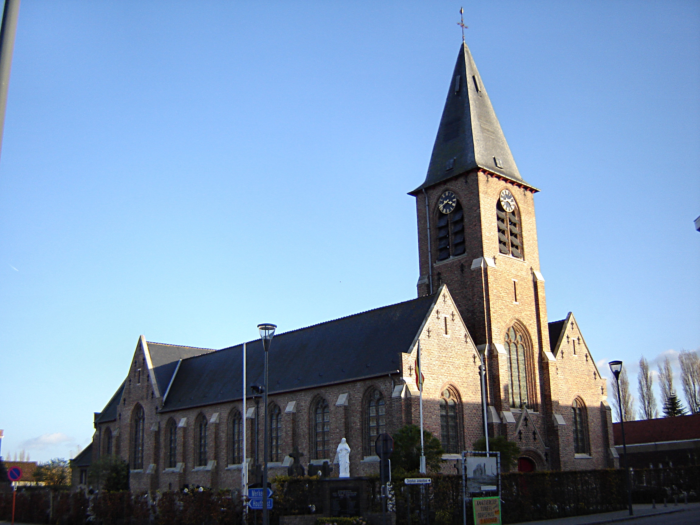 Church of Saint Joseph in Jonkershove. Jonkershove, Houthulst, West Flanders, Belgium